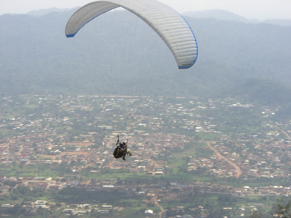 Paragliding in Nkawkaw (en), Eastern Region (Ghana) Paraglider: Bi Golden